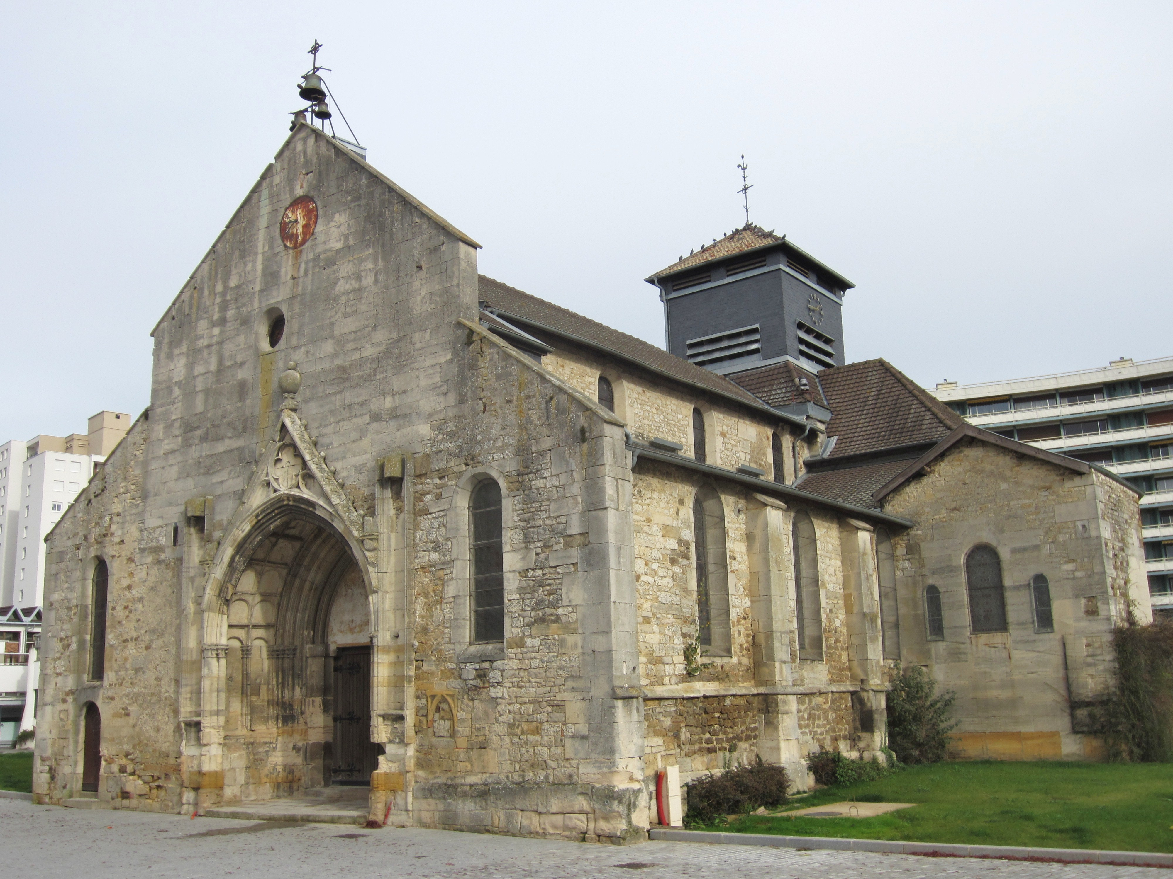 Description église Gigny Saint Dizier Date9 November 2011Sourcemon appareil photoAuthorAimelaimePermission (Reusing this file) église Gigny Saint Dizier